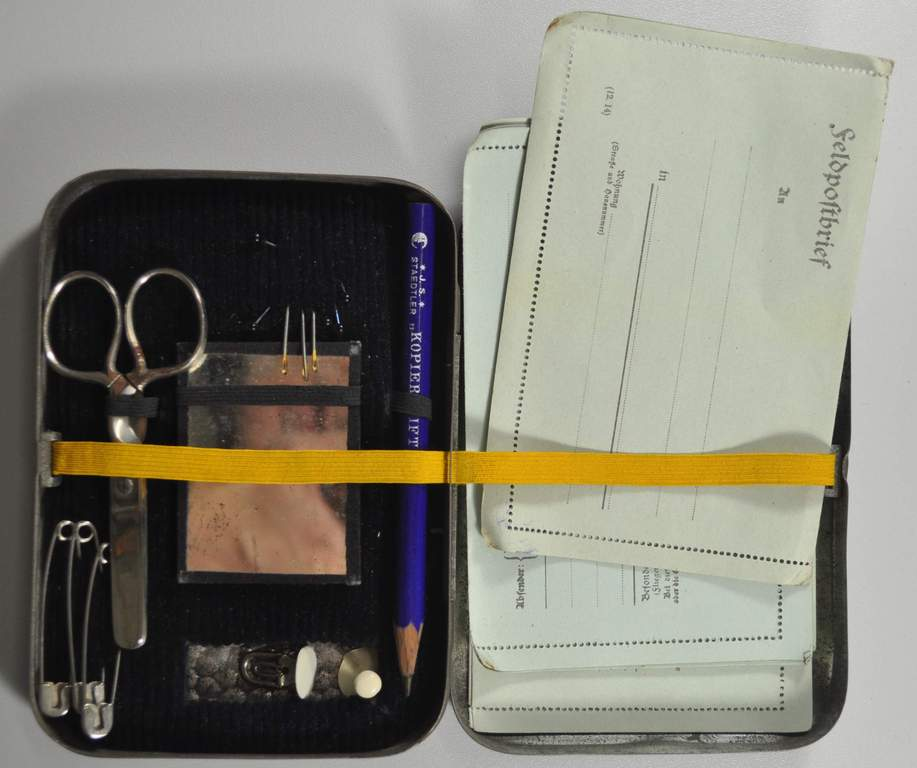 Metal box with a sewing kit and field postal stationery.